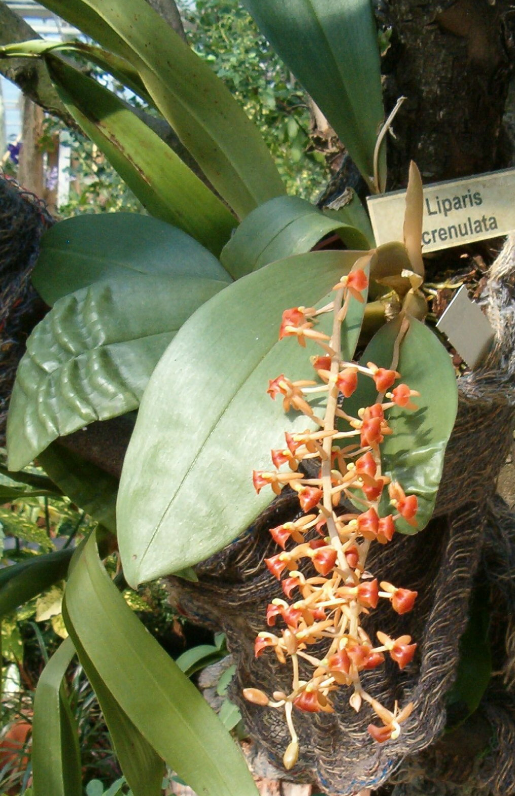 Liparis crenulata, Habitus and Flowers Location: Botanical Gardens Berlin - Orchid Exhibition